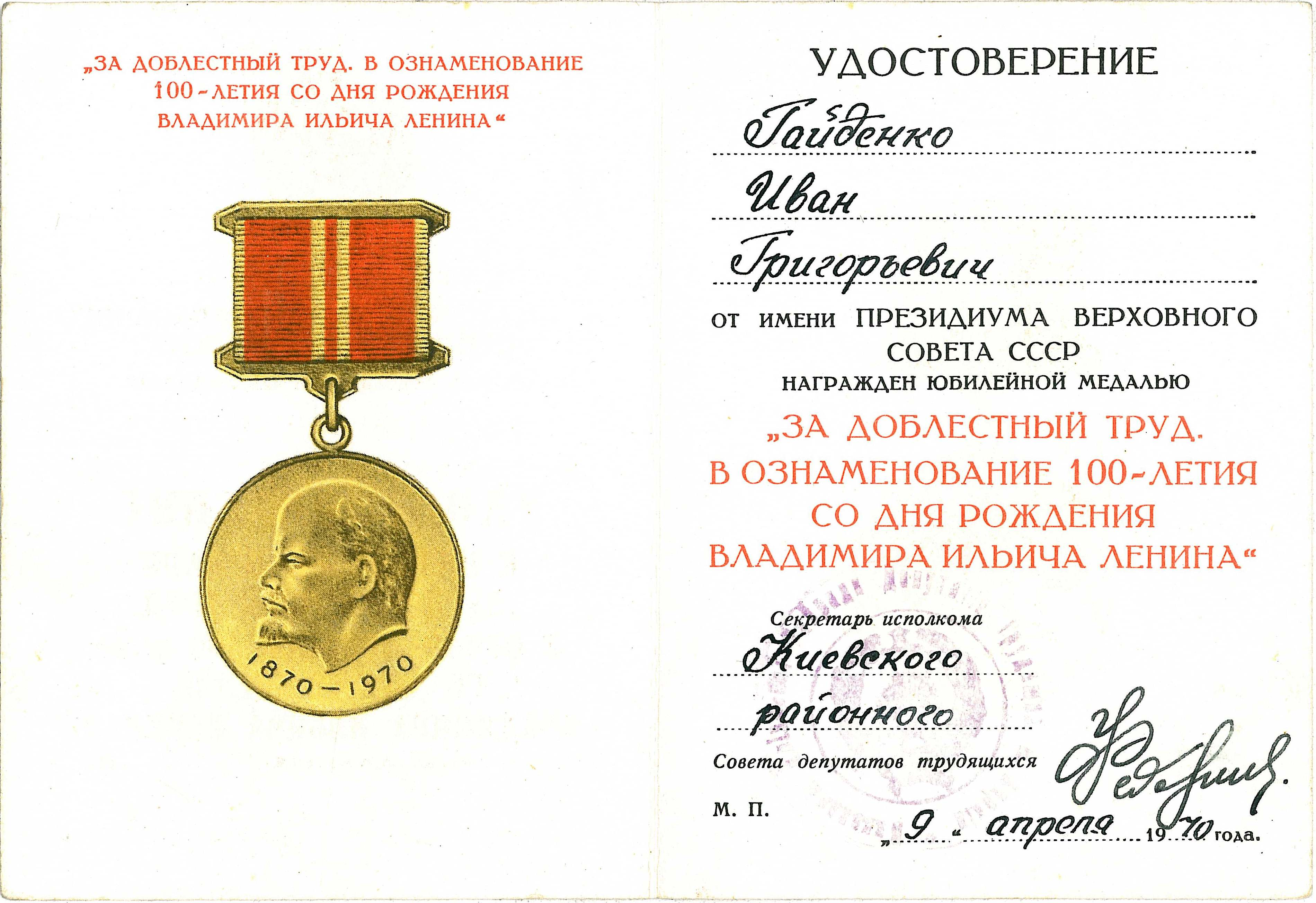 Award document for the Jubilee Medal "For Valiant Labour in Commemoration of the 100th Anniversary since the Birth of Vladimir Il'ich Lenin"